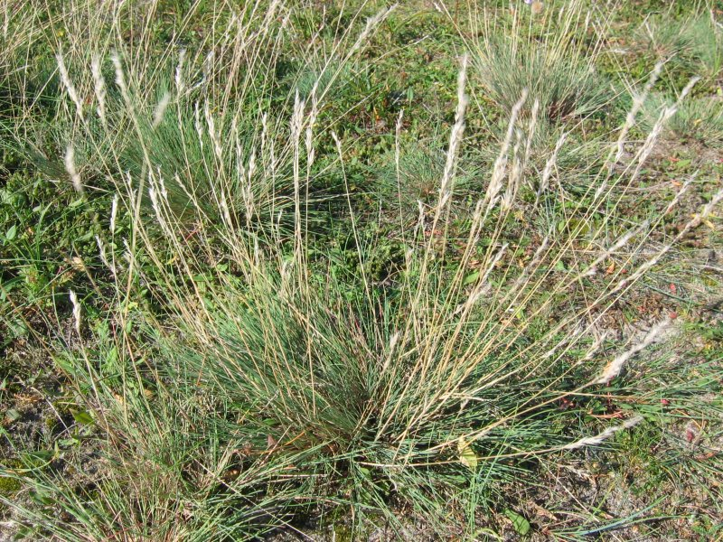 Silbergras (Corynephorus canescens), Horst